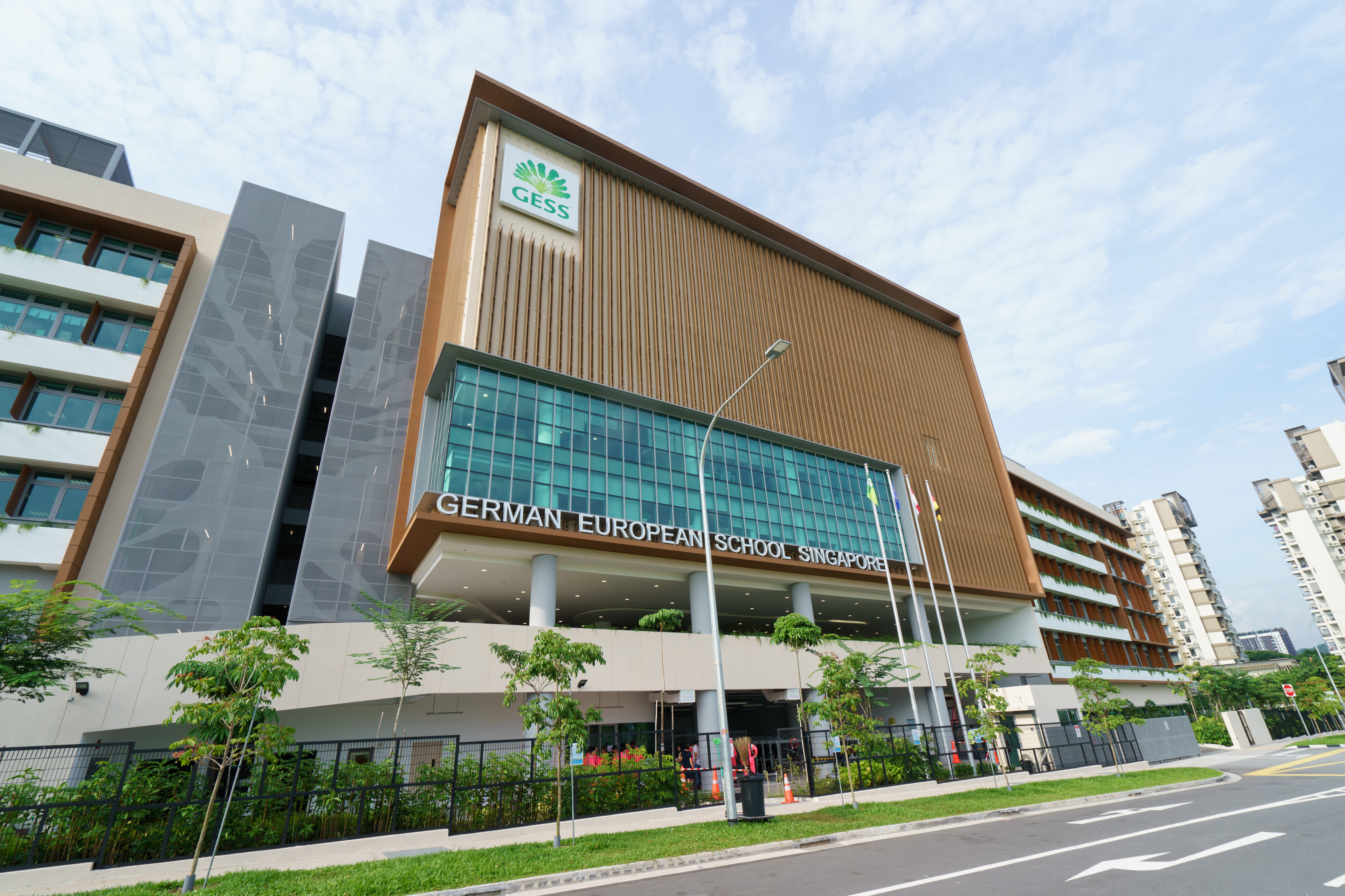 The new campus was opened in August 2018 at Dairy Farm Lane.